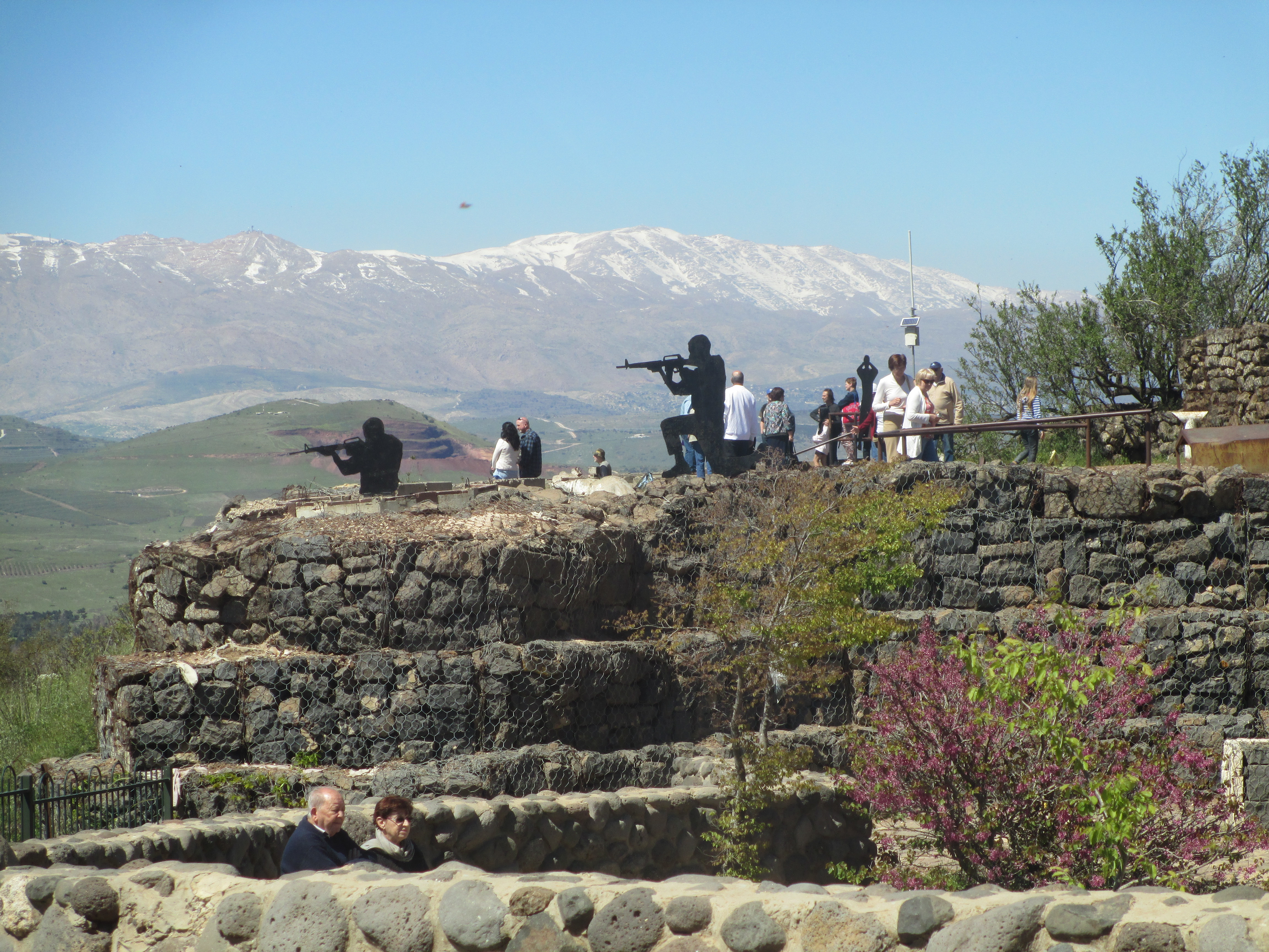 Mt. Bental